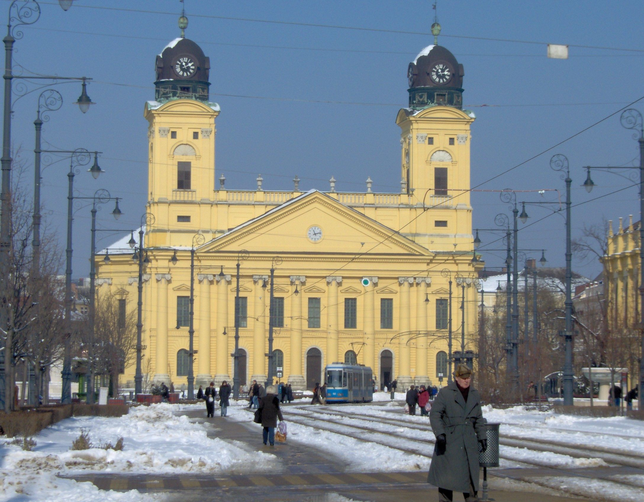 Great Calvinist temple of Debrecen